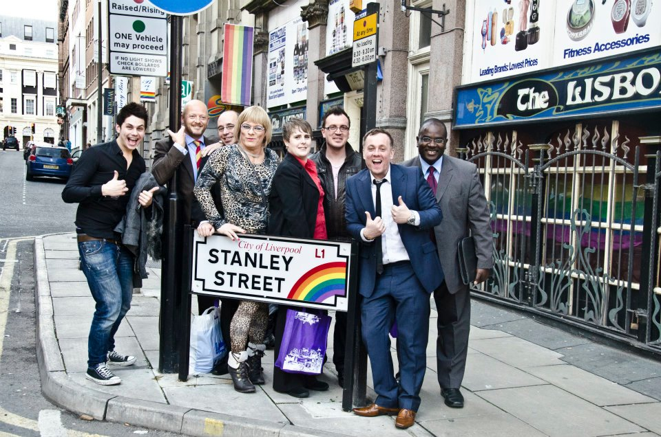 Leeds delegation to Liverpool Gay Quarter (March 2012)